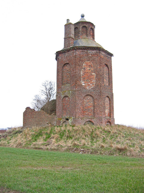 Carnaby Temple, by Carnaby, East Riding of Yorkshire, England, imitation Classical Greek temple built in the C18th by the Strickland family.